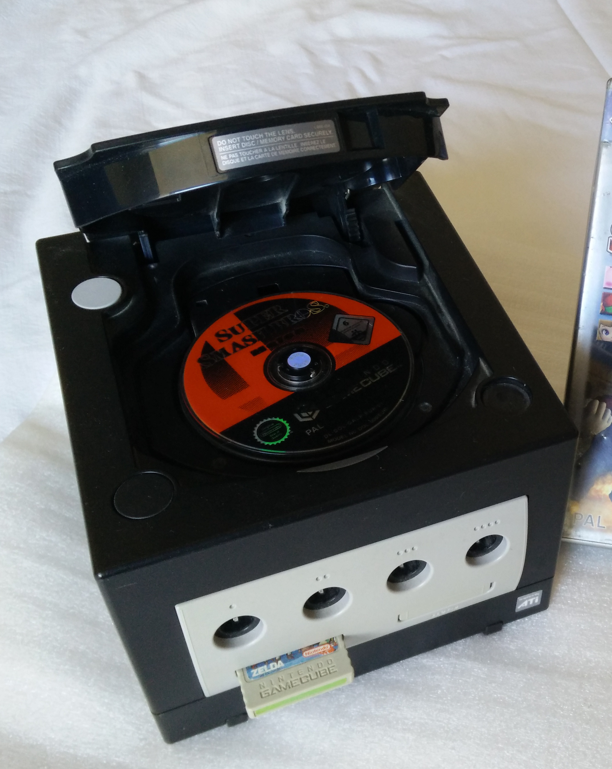 Super Smash Bros. Melee CD game in a Gamecube, with its box next to it